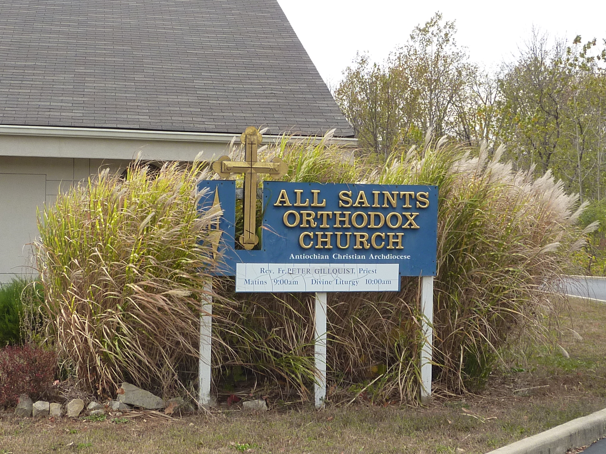 On the grounds of All Saints Antochian Orthodox Church, a few miles south of Bloomington, Indiana. The church is small, but its grounds occupy a few acress (formerly, a limestone quarry), and include a cemetery and a number of small shrines.